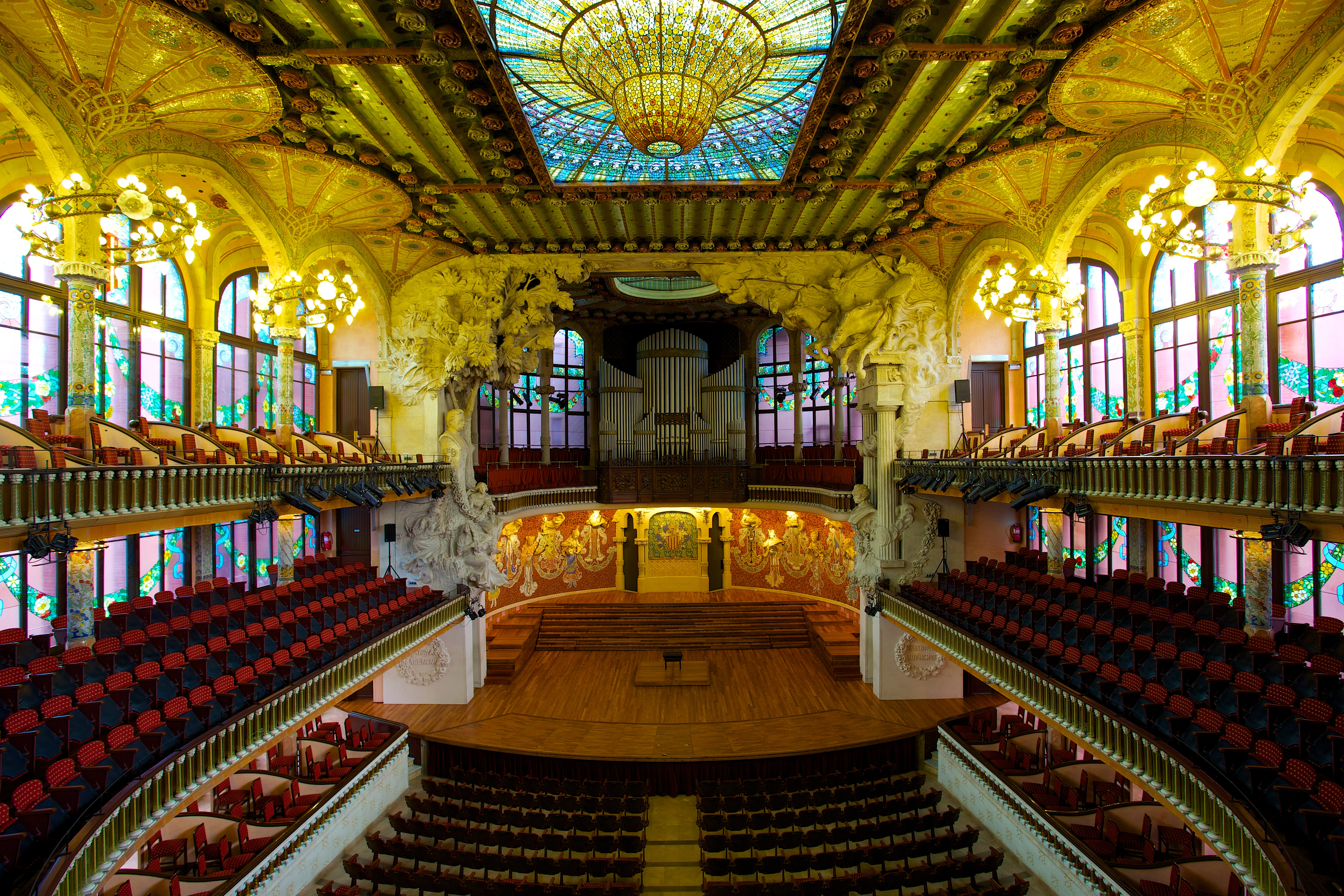 Catalan Concert Hall from the balcony